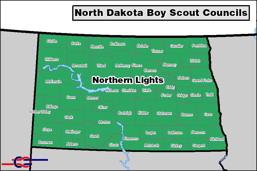 North_Dakota BSA Councils - Map created using boundary information publicized by the relevant BSA councils. US Census TIGER data used for county and state lines. Council divisions are exact where they coincide with county lines and approximate in other areas. All councils on this map are in the central region.